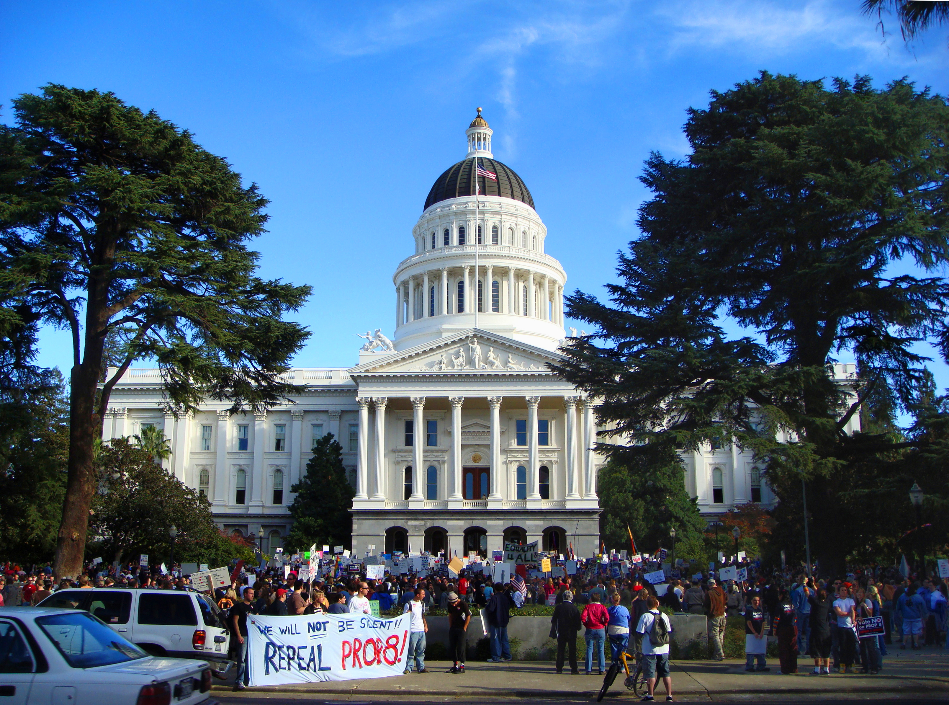 California State capitol, November 9 2008. Protesters gather to create the largest demonstration seen in years by CHP. California State Capitol, 10Th Street and Capitol Mall, Sacramento, CA 95814